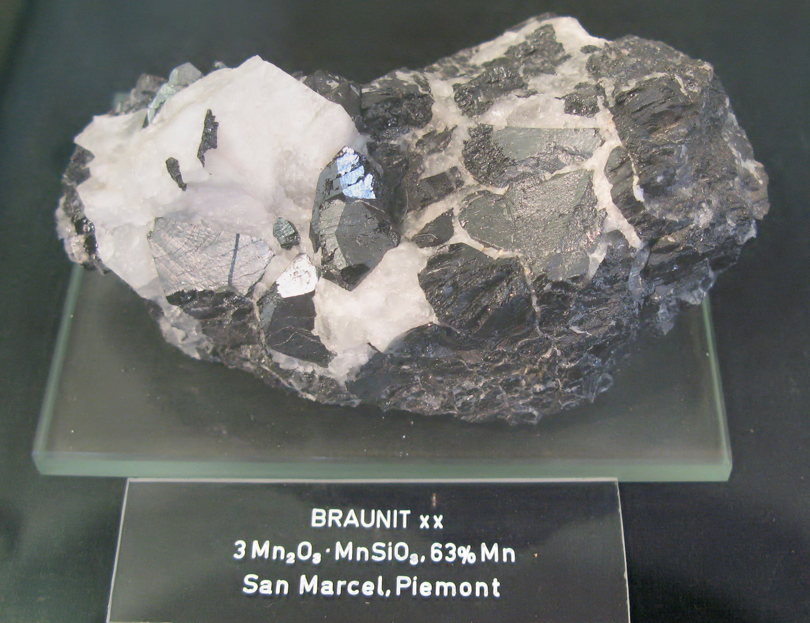 Braunite - Locality: San Marcel, Piedmont - Exposed in the Mineralogical Museum, Bonn, Germany